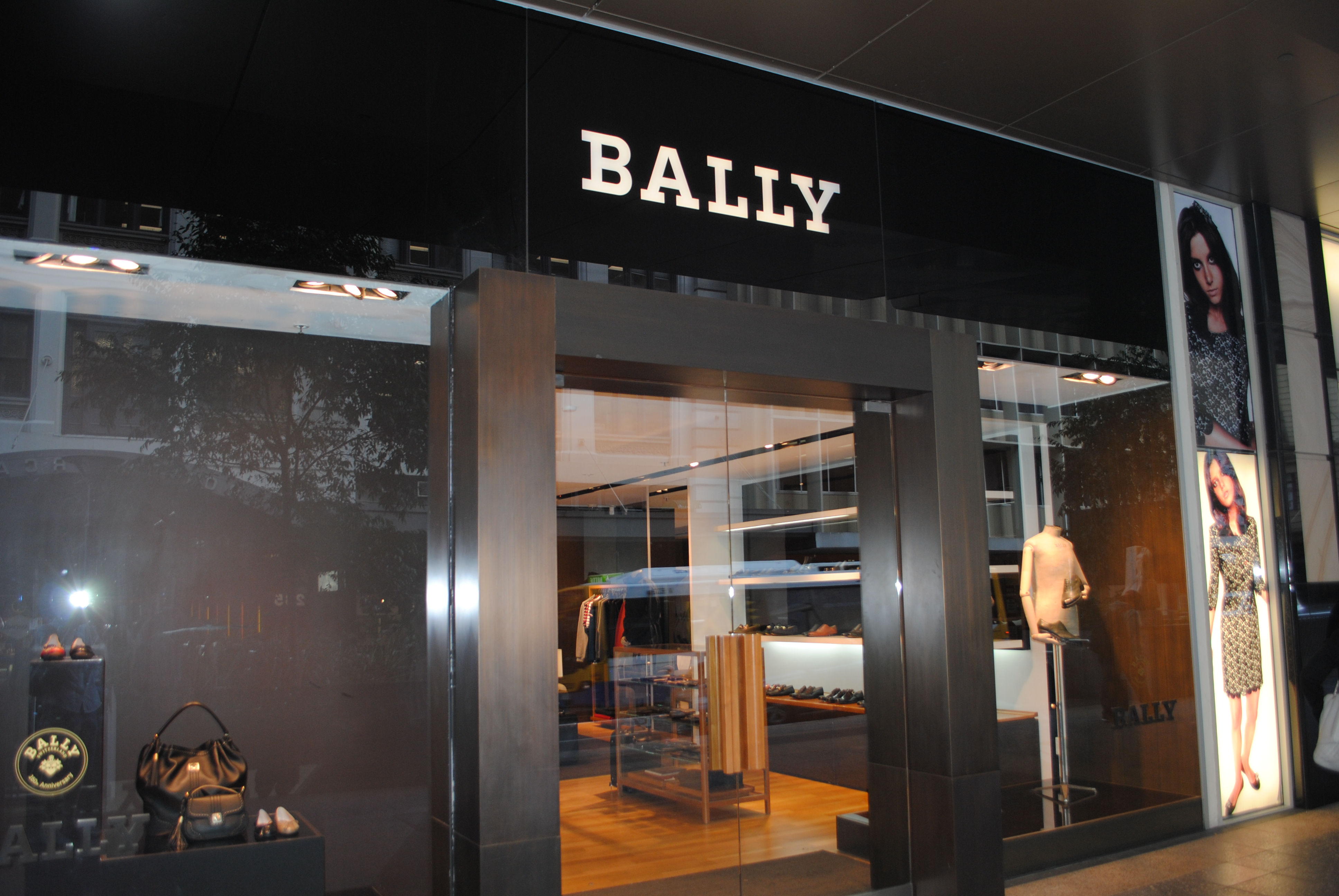 Bally Store in Queens Plaza, Edward Street, Brisbane City